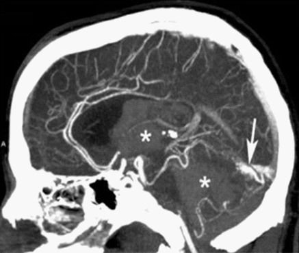 edit CT angiography of a vascular malformation with intraventricular hemorrhage.png. For context, see Wikipedia:Imaging in stroke.